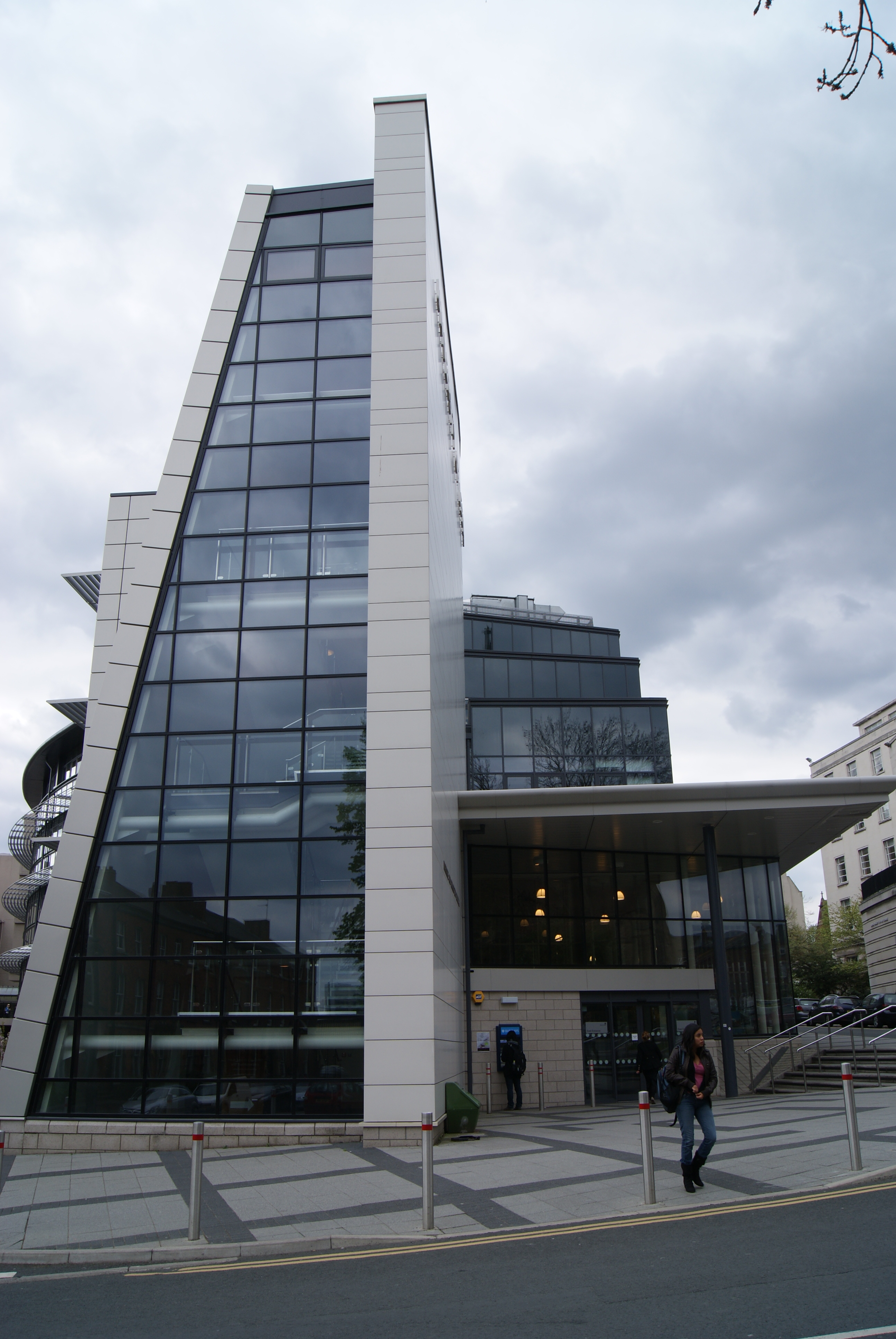 The Marjorie and Arnold Ziff Building at the University of Leeds. Taken on the afternoon of Tuesday the 4th of May 2010.